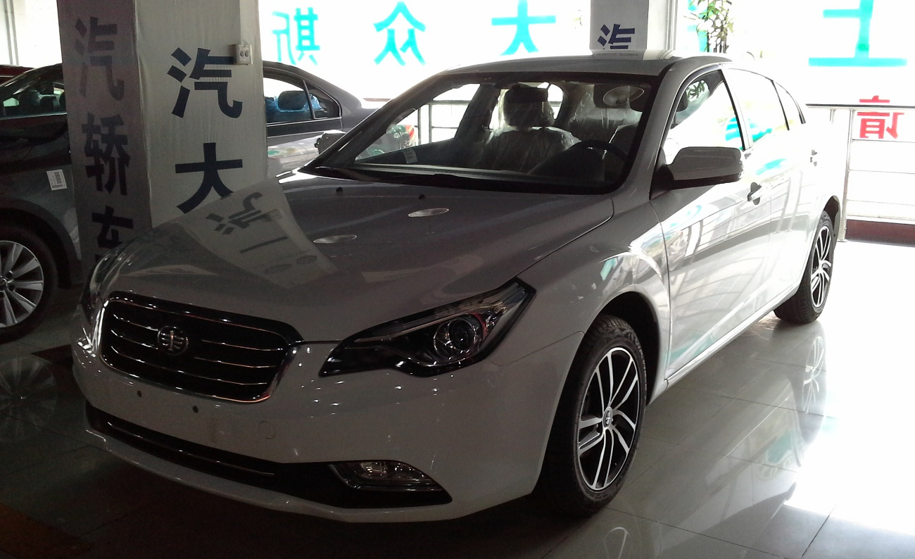 Besturn B50 facelift photographed in Chengdu, Sichuan province, China.